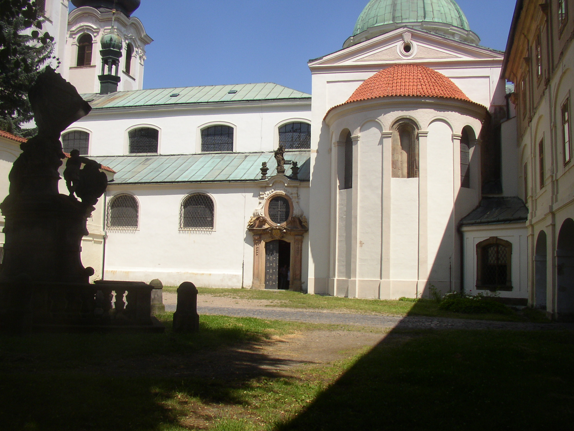 Church of the Nativity of the Virgin Mary of female Premonstratensian convent in Doksany, Litoměřice District, Czech Republic. Originally a Romanesque basilica from early 1200s with Baroque additions mainly from 1710s. Especially the crypt in western part of the church is considered an outstanding example of Roamnesque architecture in Bohemia. A view from the south, from second courtyard of the convent. Romanesque apsida of the trasept is well recognizable in the right, in the left foreground silhouette of sculptural group of Virgin Mary with Duchess Gertruda (1744).